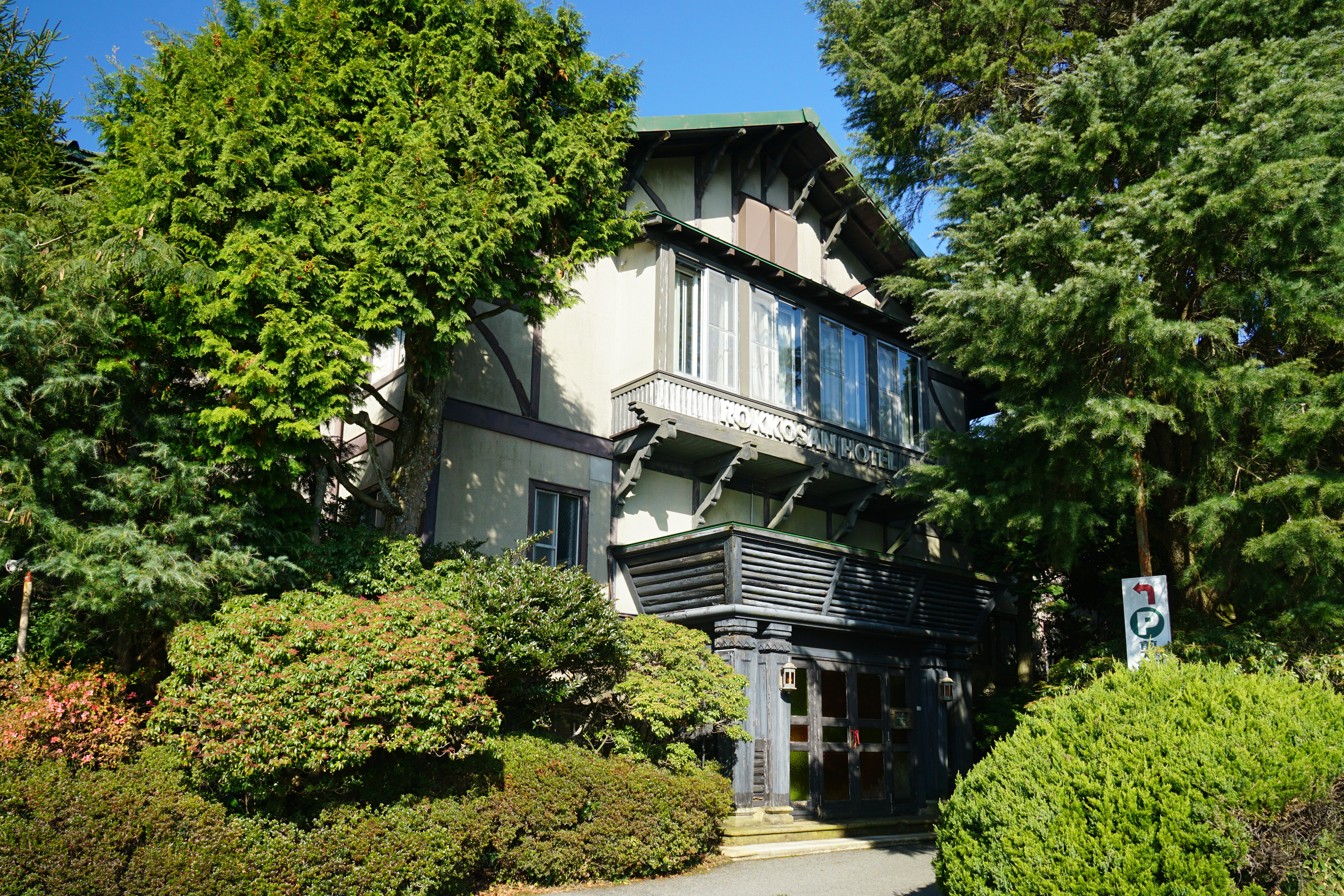 Rokkosan Hotel in Kobe, Hyogo prefecture, Japan